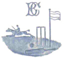 Crest of the Bullingdon Club